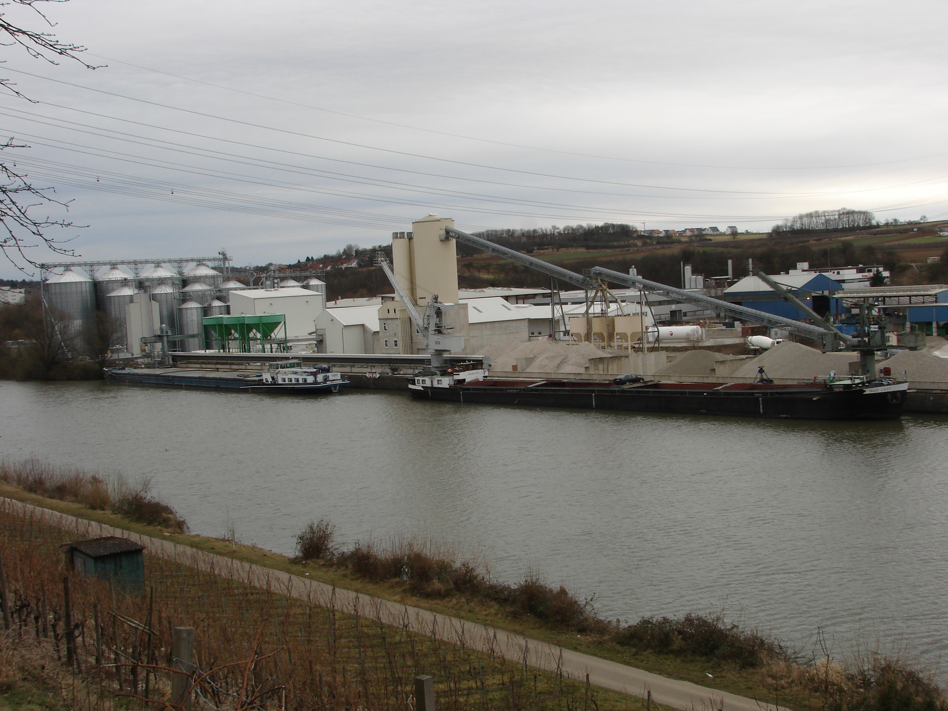 Freiberg am Neckar, industrial area at the Neckar